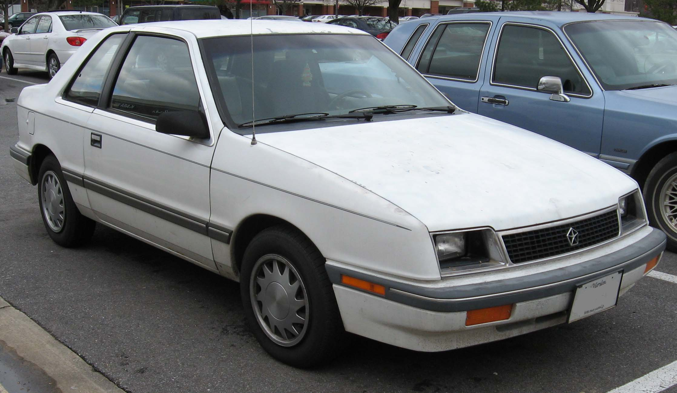 1987-1990 Plymouth Sundance photographed in USA.